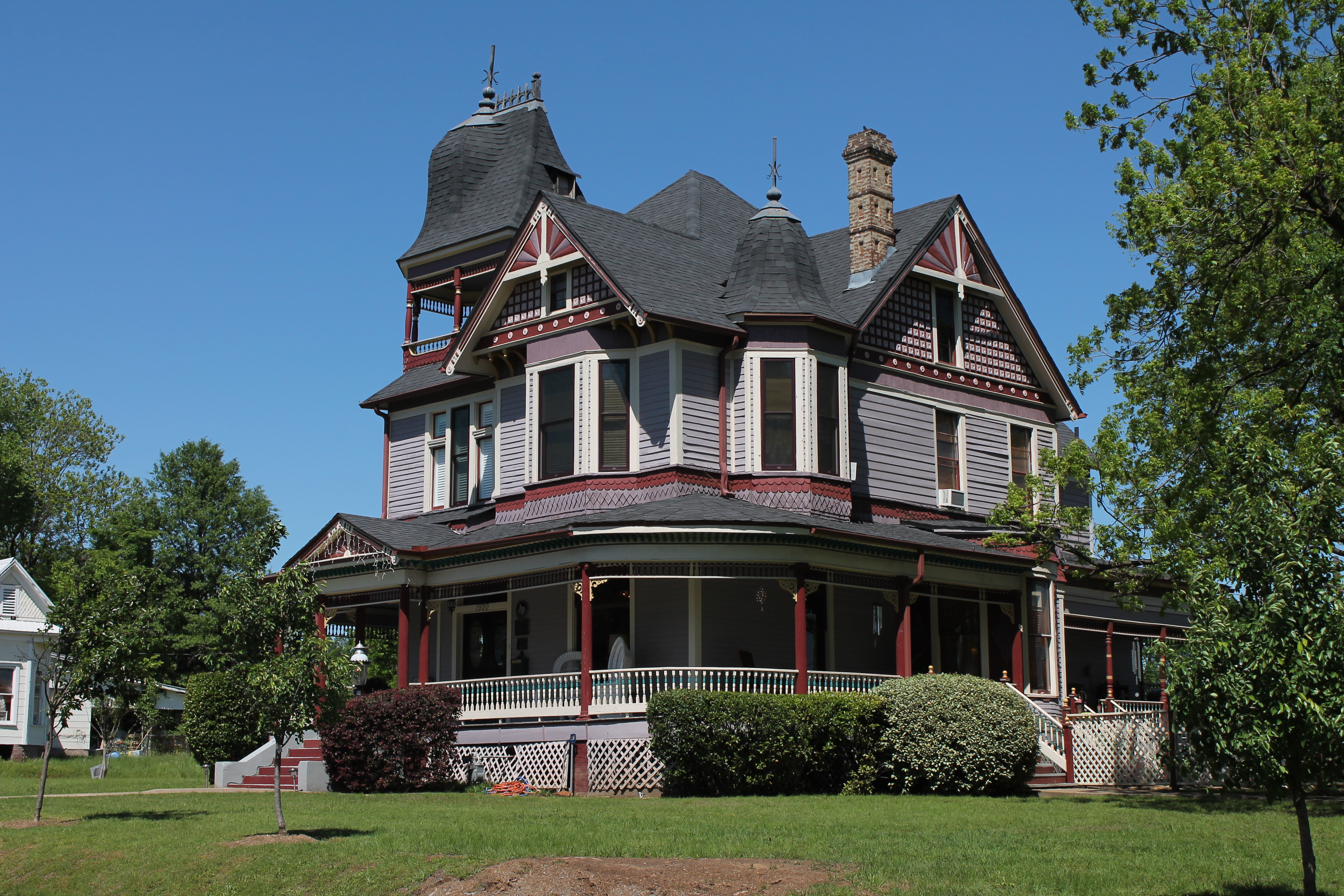 Earl Rochelle House